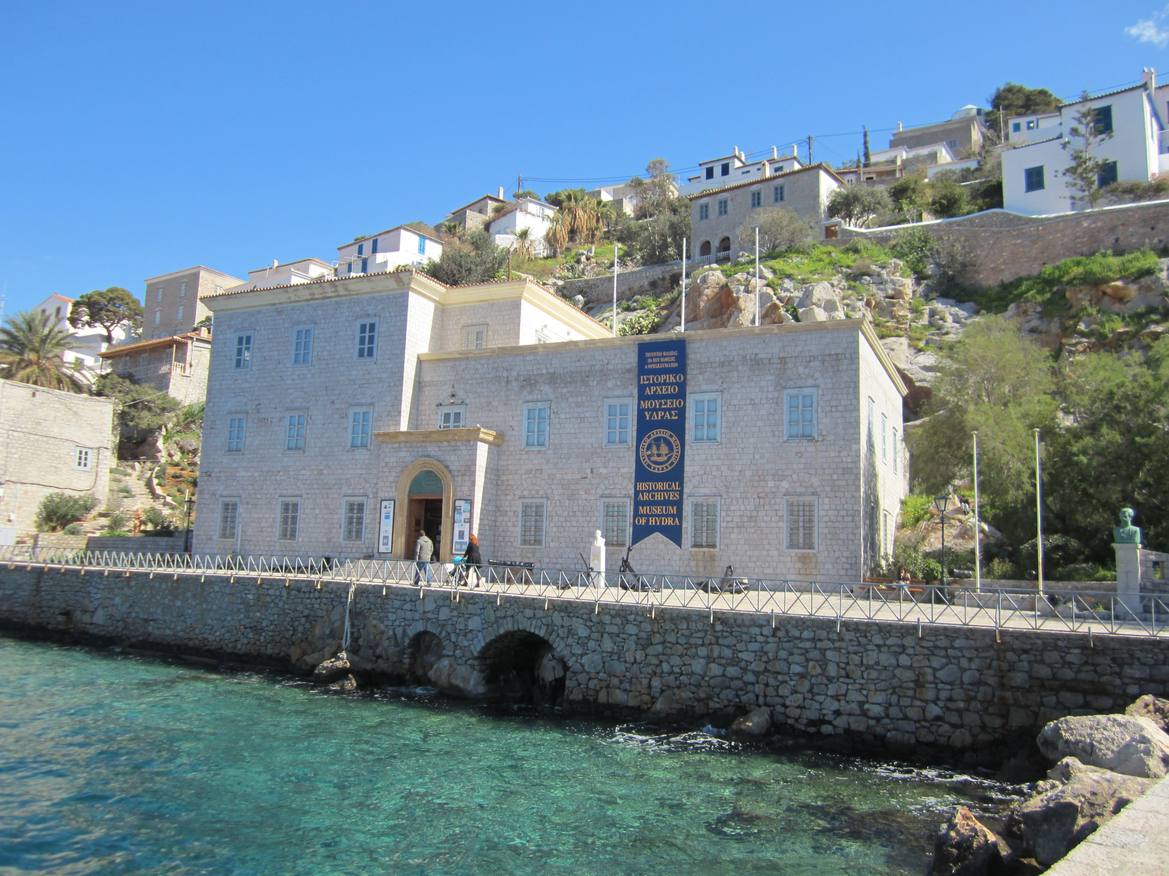 Historical museum of Greek island Hydra